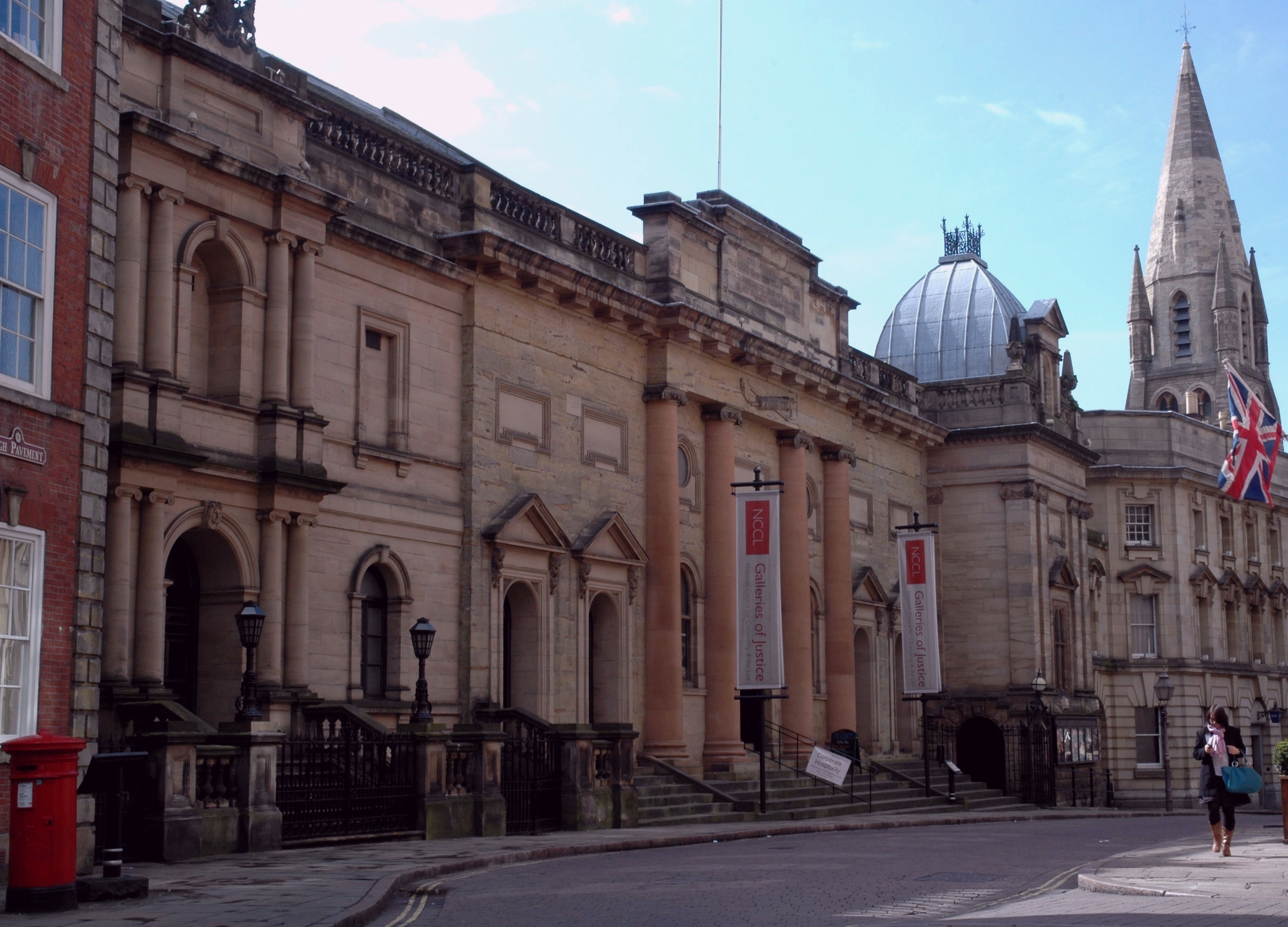 Lace Market - Galleries of Justice